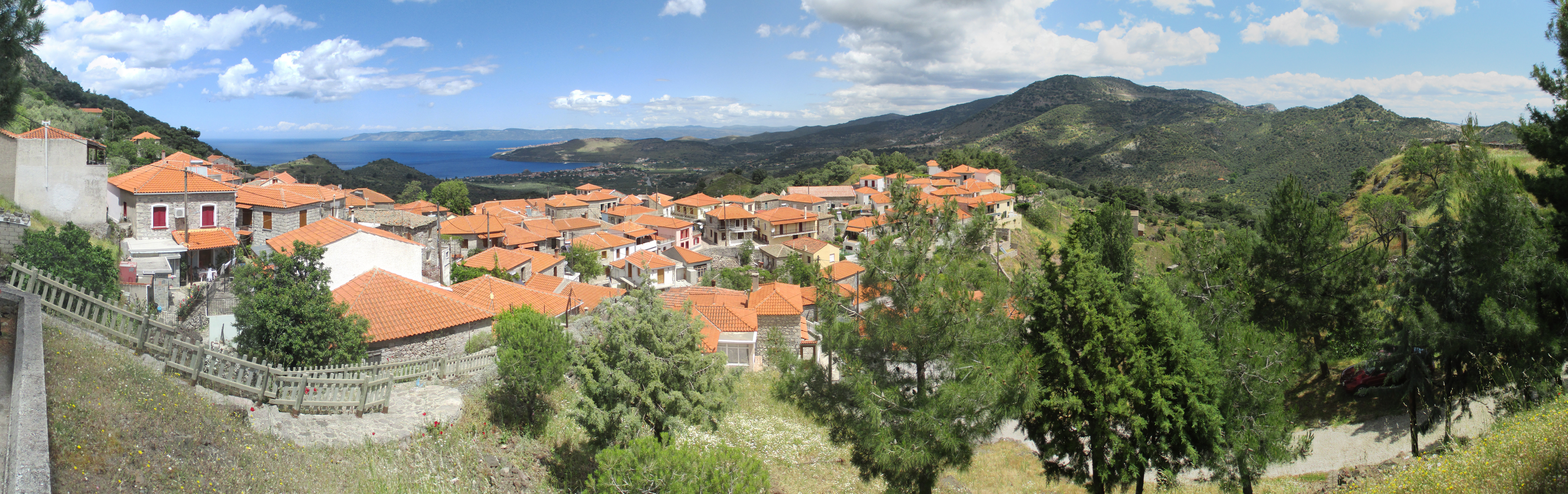 Lafionas village, Lesbos, Greece. View to northeast, towards Petra and Mithymna (Molivos) (back left) and Mount Lepetimnos (back right).